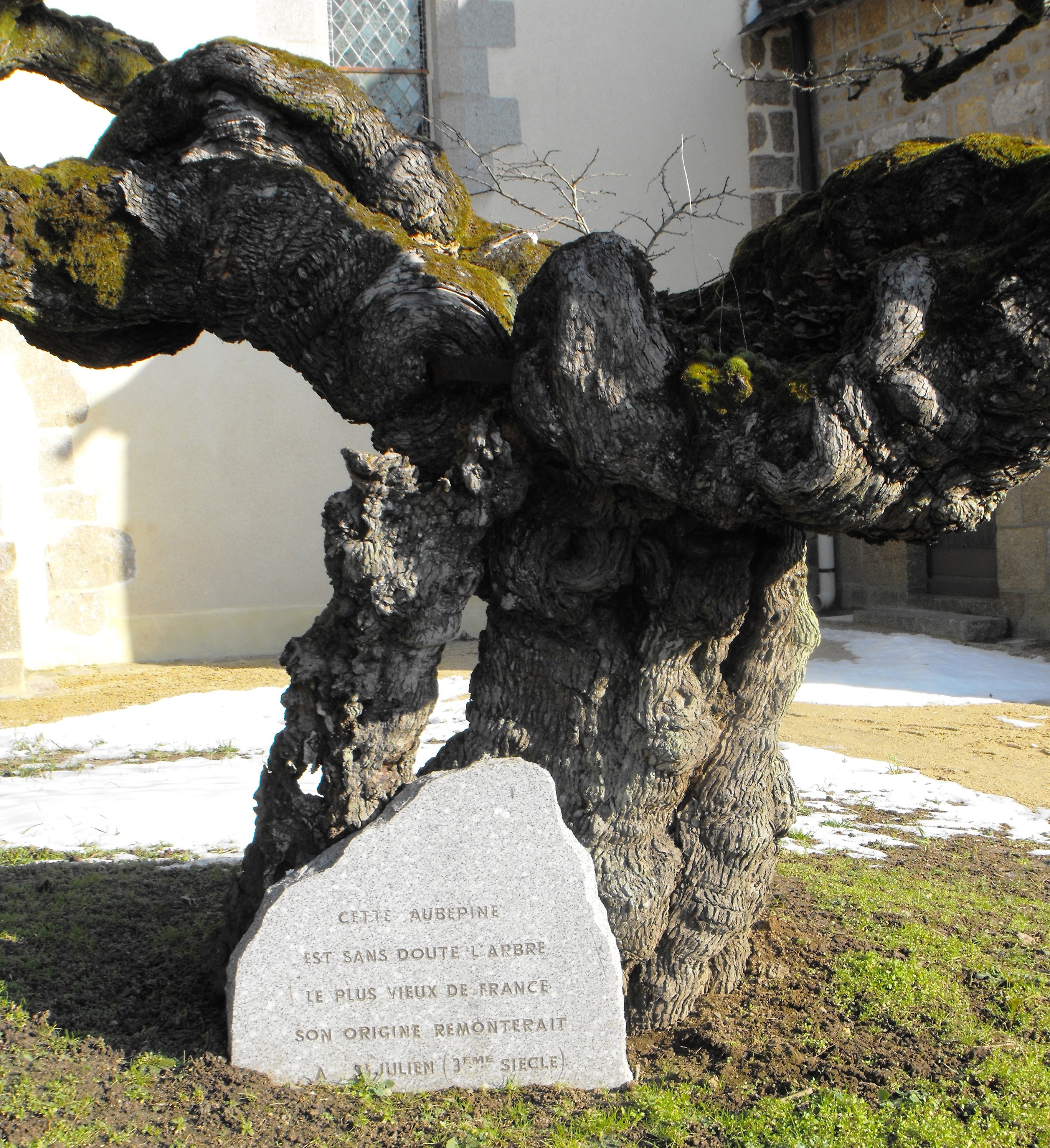 Hawthorn growing at Saint Mars sur la Futaie, photographed Feb. 2010.